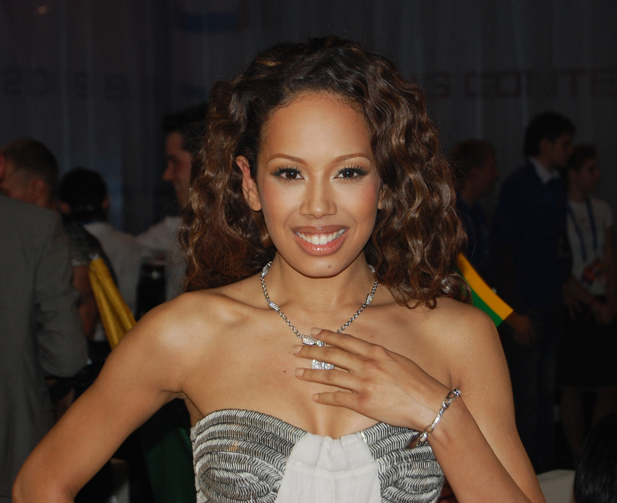 Jade Loise Ewen at ESC 2009 final